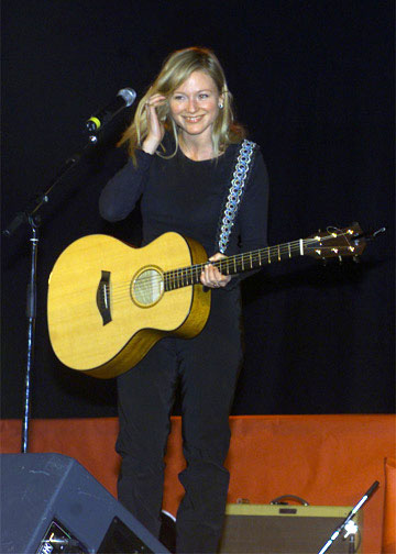 Famous recording artist, Jewel, performs during the Secretary of Defense Holiday Show 2000, "A Tribute to the Air Force." She was one of many stars which supported the event at Ramstein Air Base, Germany, on December 17th, 2000.